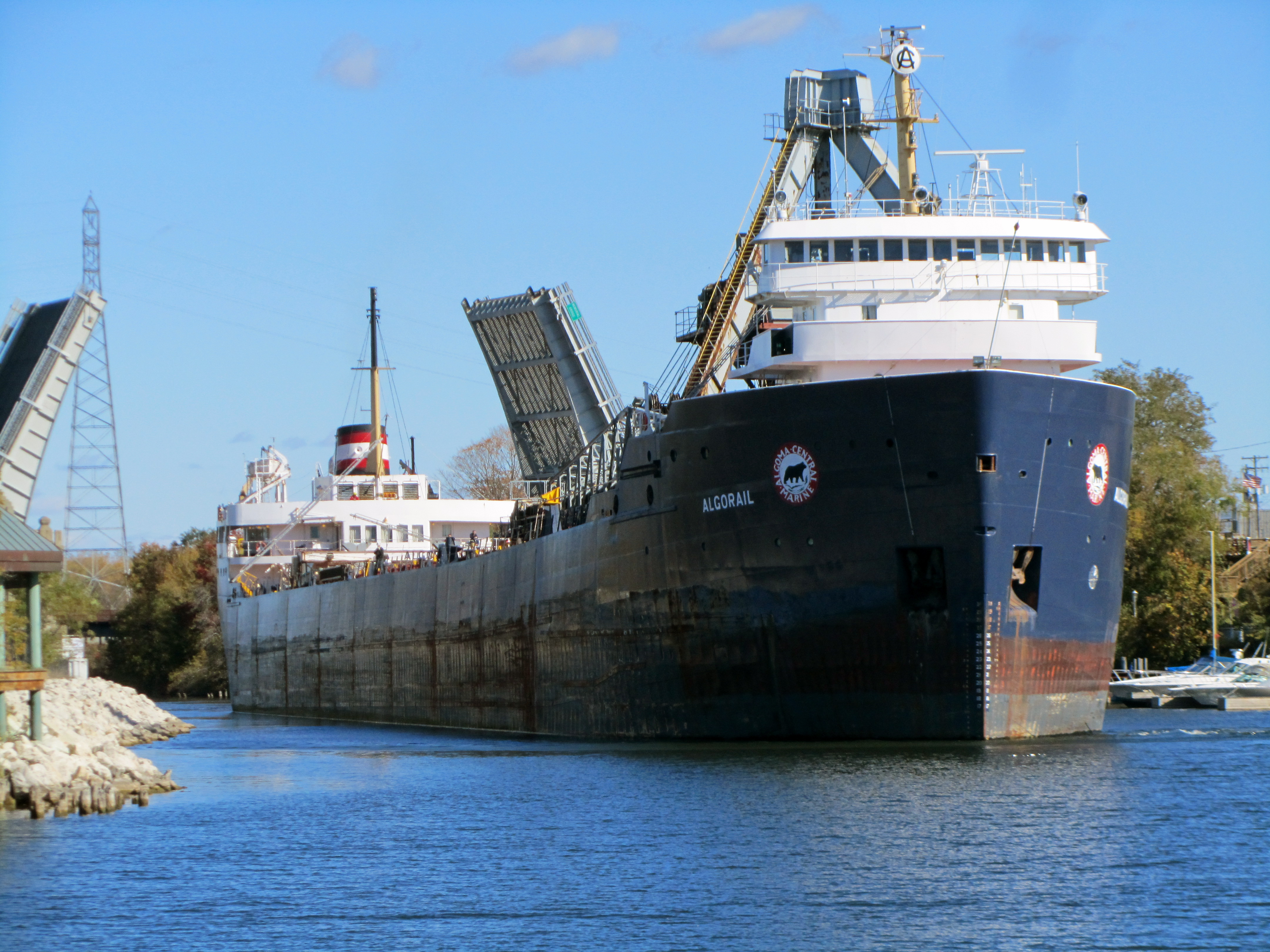 We came out of a shop in Manistee last Sunday and saw the bridges being raised for this behemoth. Amazing to watch such a big ship in a river channel! Her specs: Ship Type: Cargo Year Built: 1968 Length x Breadth: 196 m X 22 m DeadWeight: 23320 t Speed recorded (Max / Average): 11.9 / 11.4 knots Flag: Canada [CA] Call Sign: VYNG IMO: 6805531, MMSI: 316001805